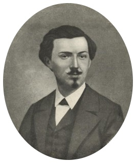 Portrait of Gabriel de Rumine published in La Patrie suisse, 1906, no 343, p. 265-343. OCLC: 47813116